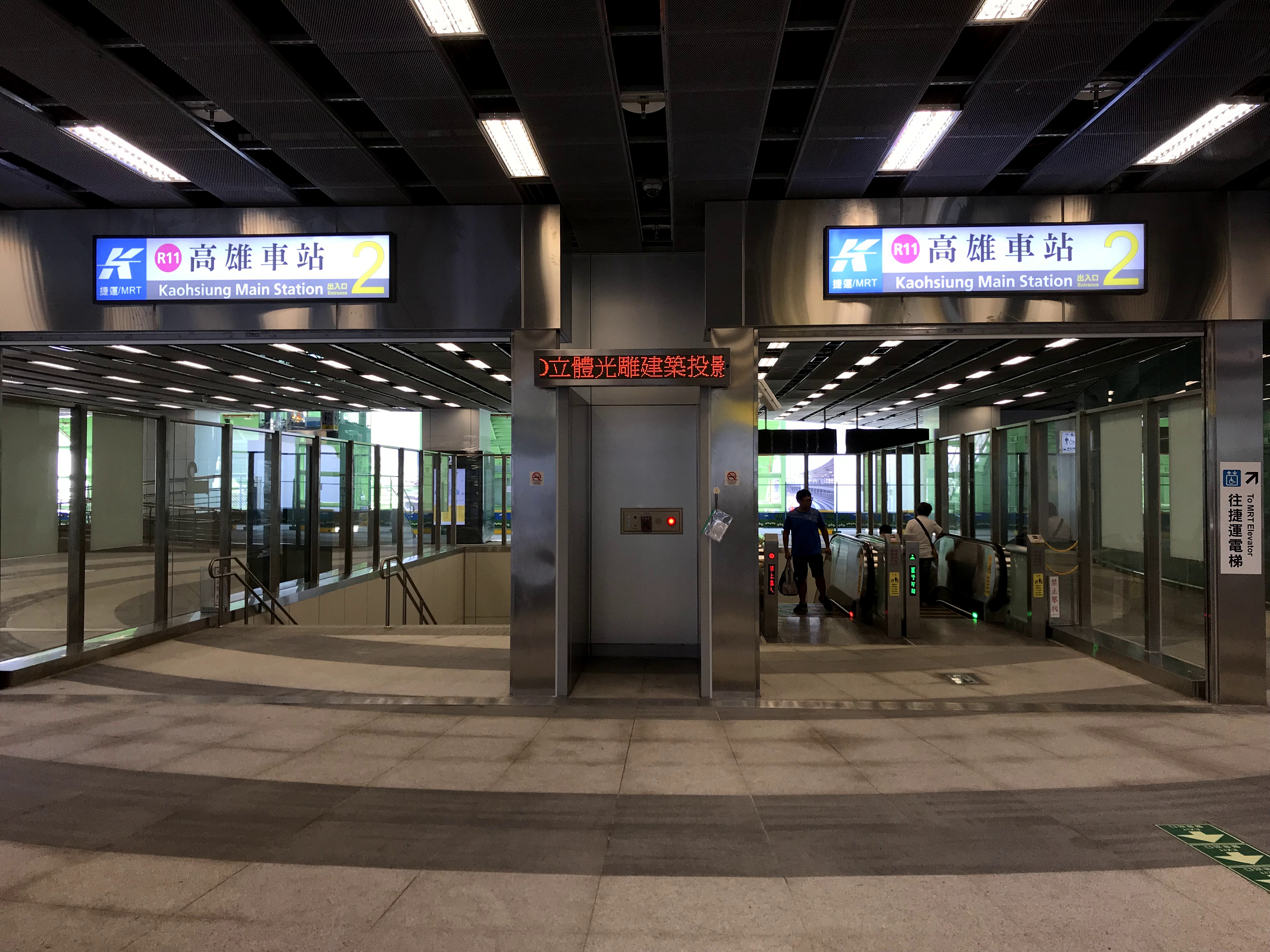 Exit 2, Kaohsiung Main Station, Kaohsiung MRT.